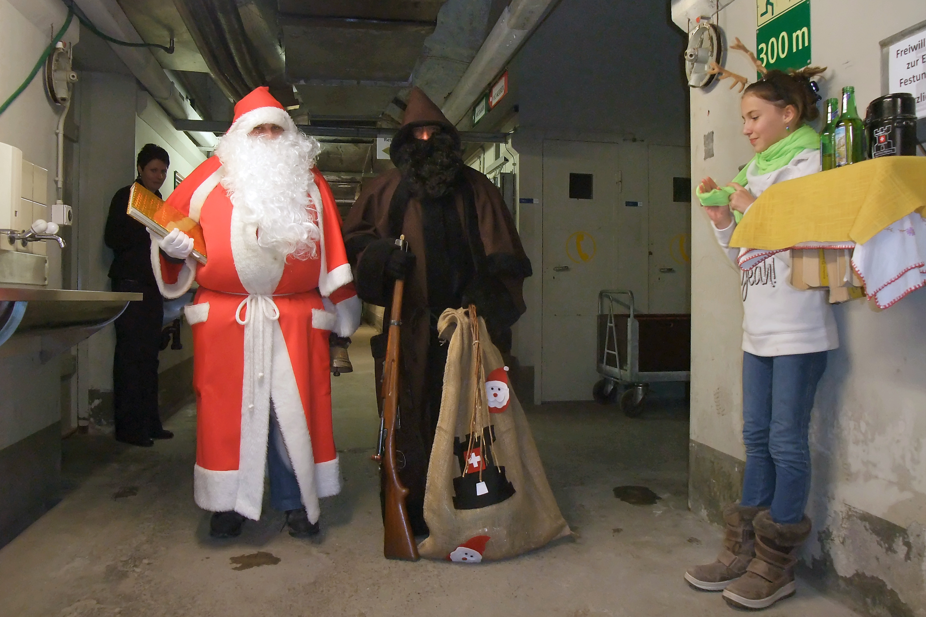 Perhaps, the rifle is a bit exaggerated. But nothing is as bad as it looks. Santa Claus and helper Schmutzli* underground in an old artillery fortress, open now for public just over three years ago. St. Margrethenberg, Switzerland, Dec 7, 2013. Schmutzli: Swiss german name for the helper of Santa Claus, spoken as [Shmootslee].